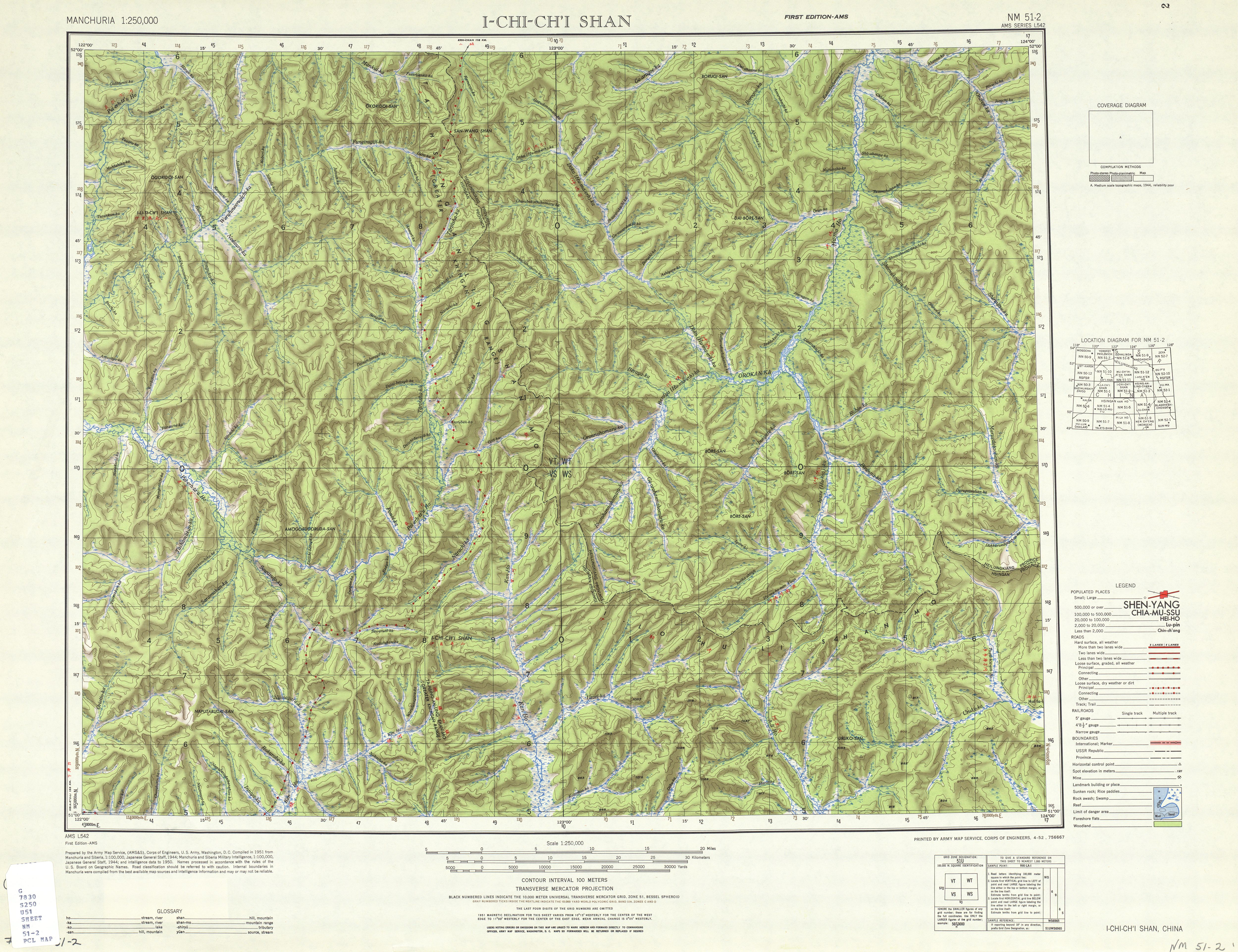 Manchuria AMS Topographic Maps